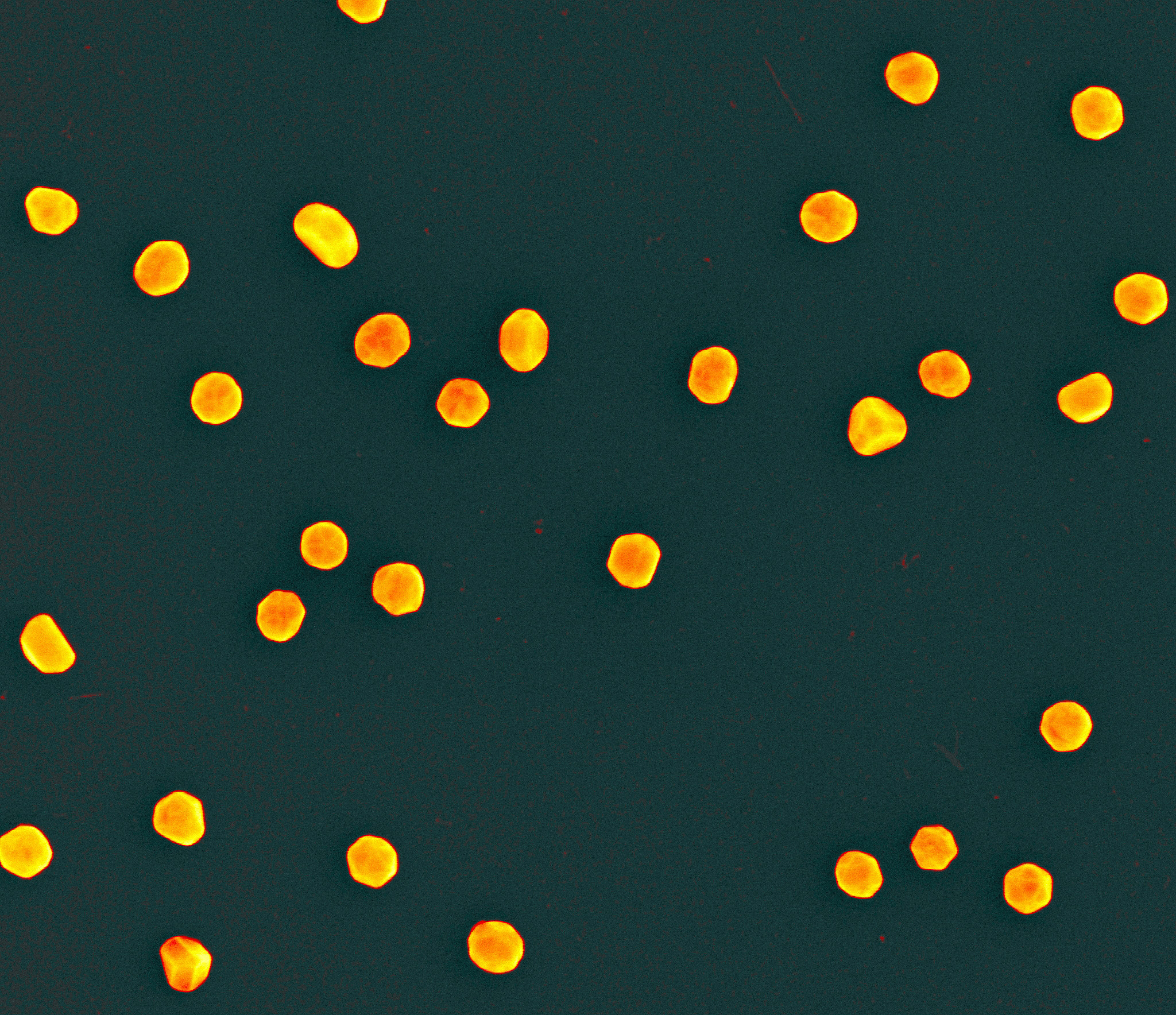 False color scanning electron micrograph (250,000 times magnification) showing the gold nanoparticles created by NIST and the National Cancer Institute's Nanotechnology Characterization Laboratory (NCL) for use as reference standards in biomedical research laboratories. Credit: Andras Vladar, NIST Disclaimer: Any mention of commercial products within NIST web pages is for information only; it does not imply recommendation or endorsement by NIST. Use of NIST Information: These World Wide Web pages are provided as a public service by the National Institute of Standards and Technology (NIST). With the exception of material marked as copyrighted, information presented on these pages is considered public information and may be distributed or copied. Use of appropriate byline/photo/image credits is requested.